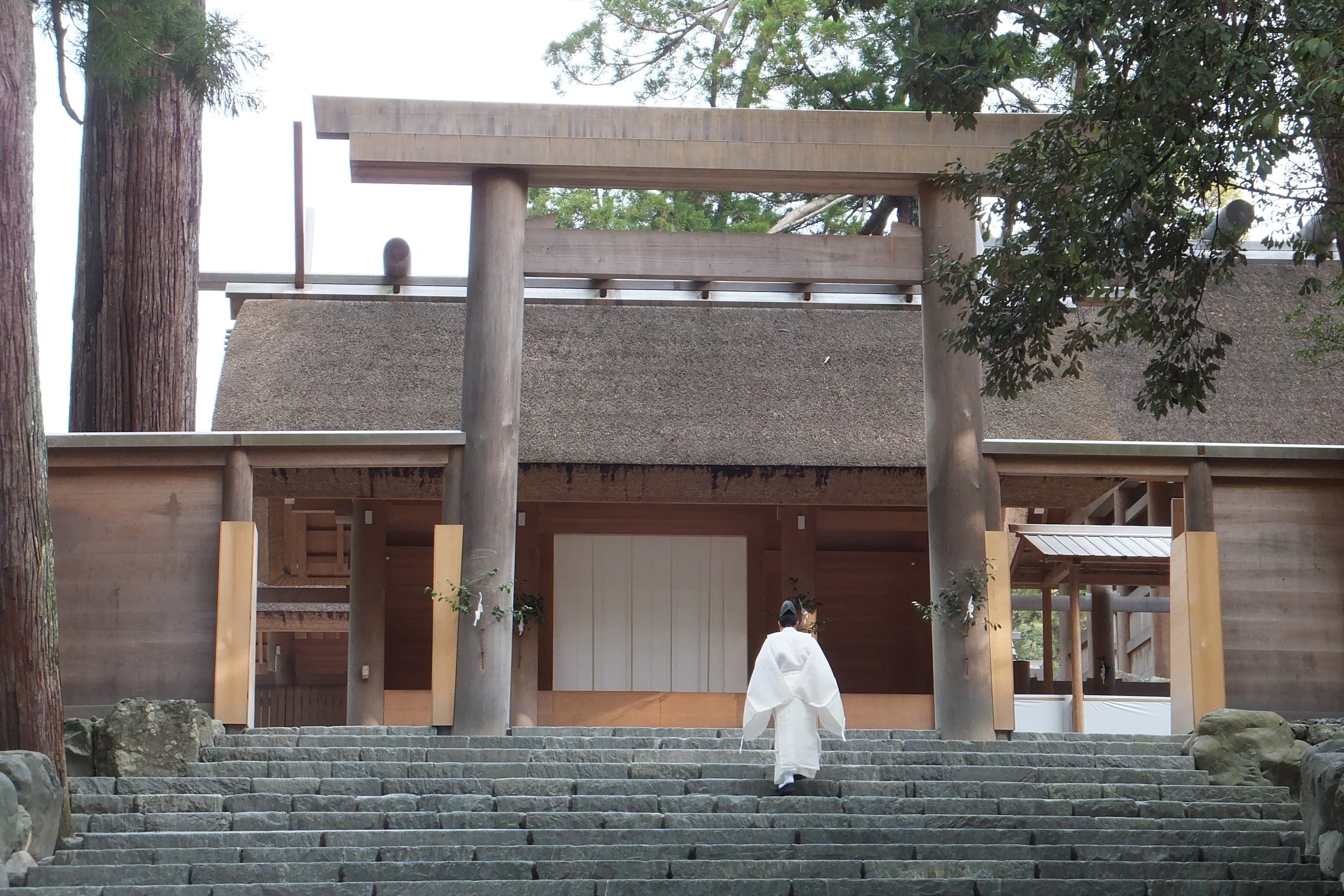 Kōtai-jingū (Naiku) at Ise city, Mie prefecture, Japan.